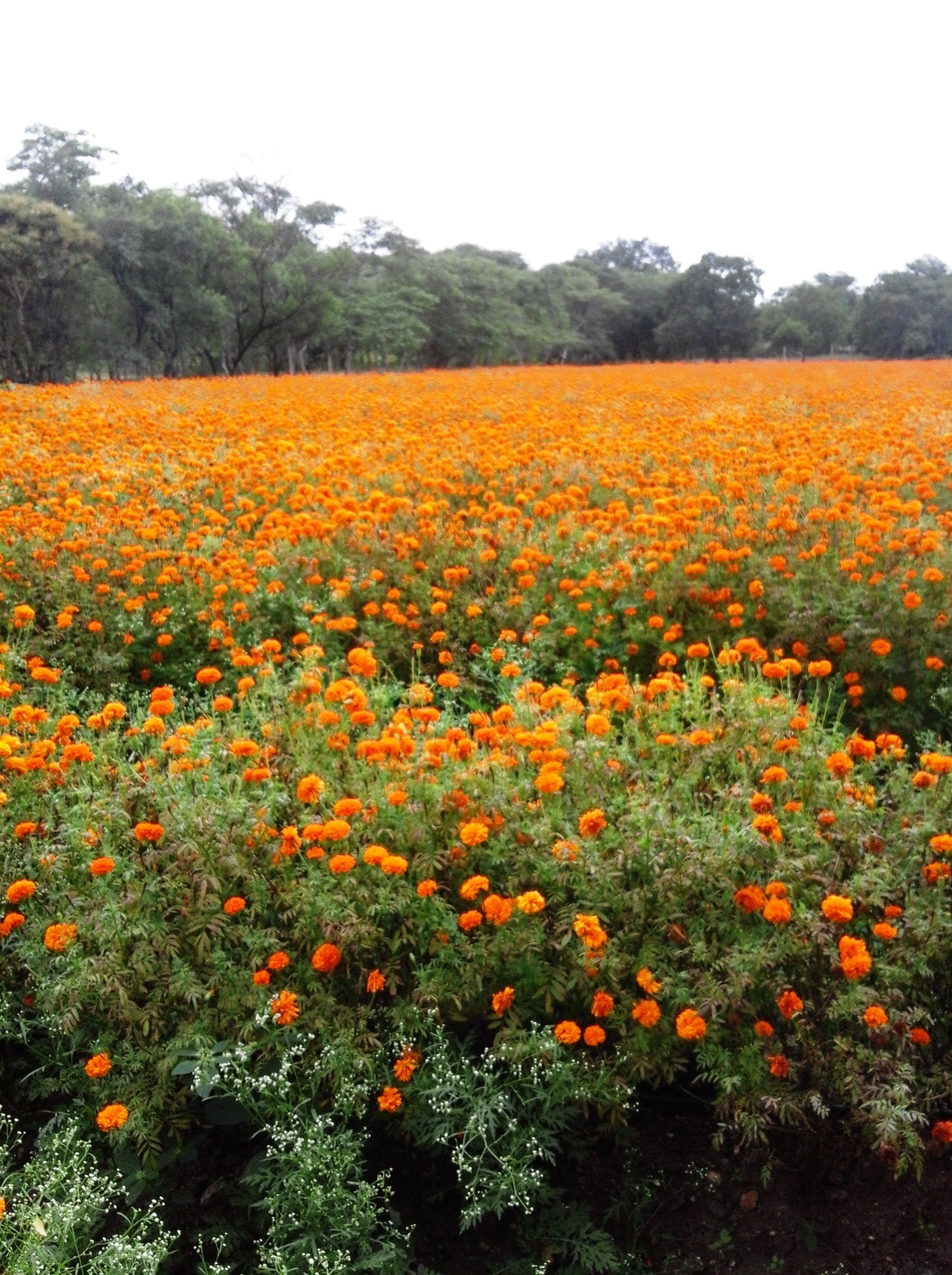 Mysore district, Karnataka state, India.